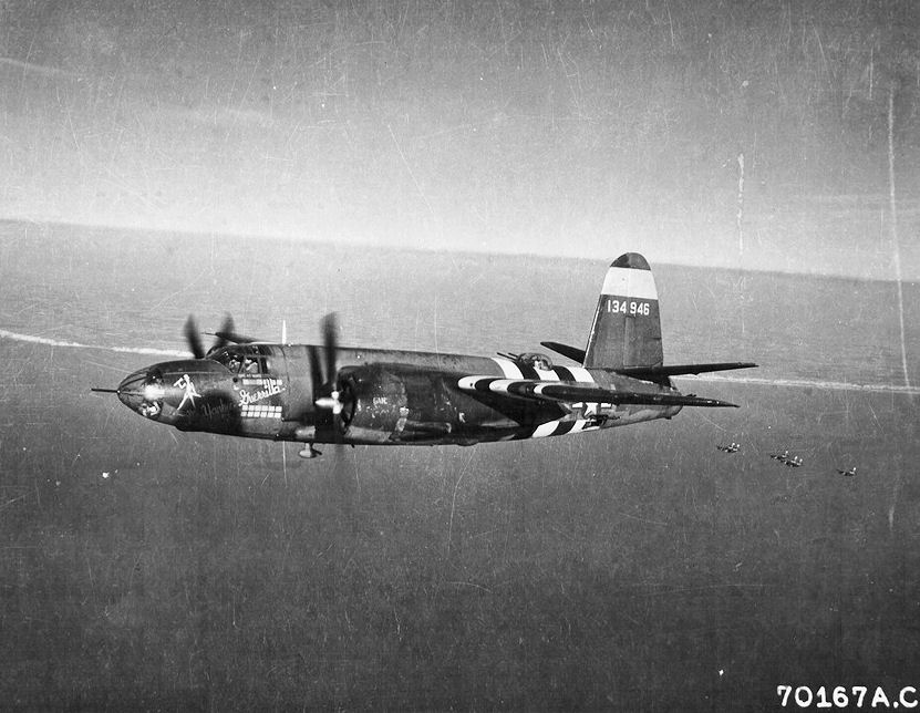 "The Yankee Guerilla" Martin B-26C-15-MO Marauder s/n 41-34946 555th BS, 386th BG, 9th AF Lost control of aircraft while returning from October 5,1944 mission in the area of Duren Barracks in Southwestern Germany. The plane crashed into a vacant house 5 miles Northwest of Compeigne,France.